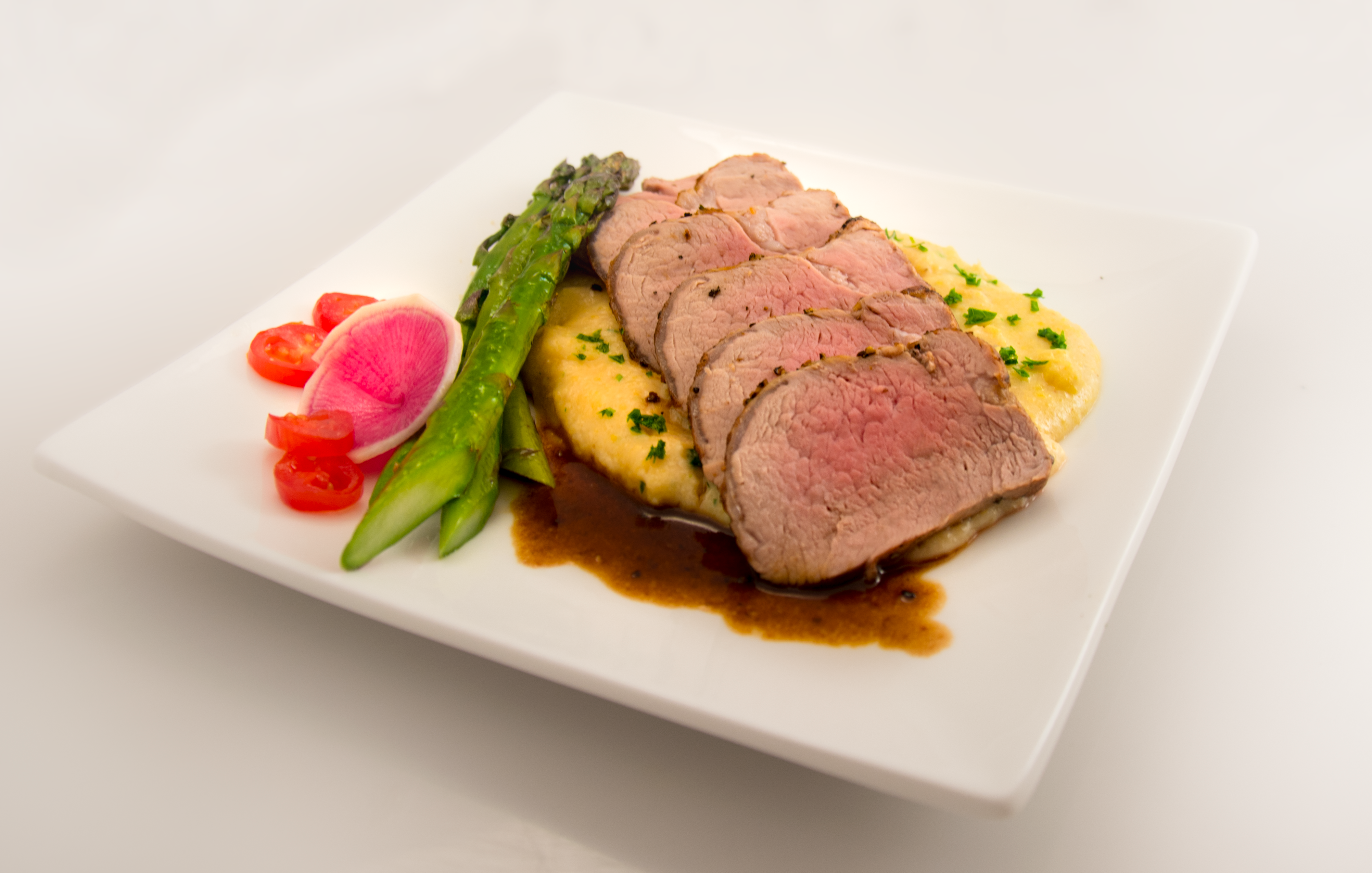 A dinner entree of roast pork tenderloin, soft mascarpone polenta, roasted asparagus, and a pan sauce. Cherry tomato and watermelon radish slices serve as garnish. I cooked, photographed, and ate this.